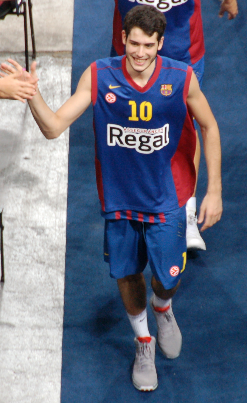 FC Barcelona's Sarunas Jasikevicus and Alex Abrines